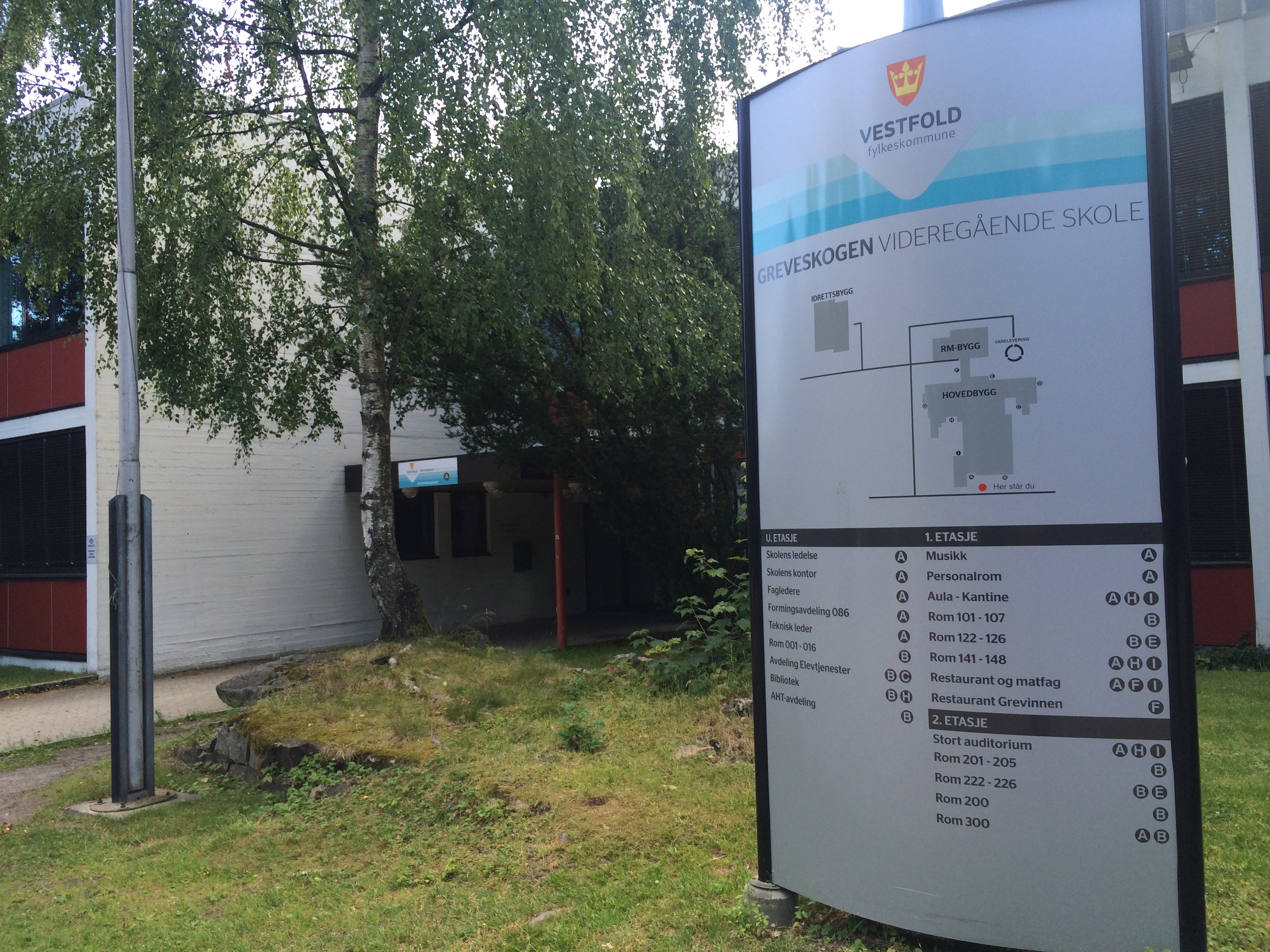 Greveskogen vgs school Toensberg Norway 2015-07-22 01 sign board